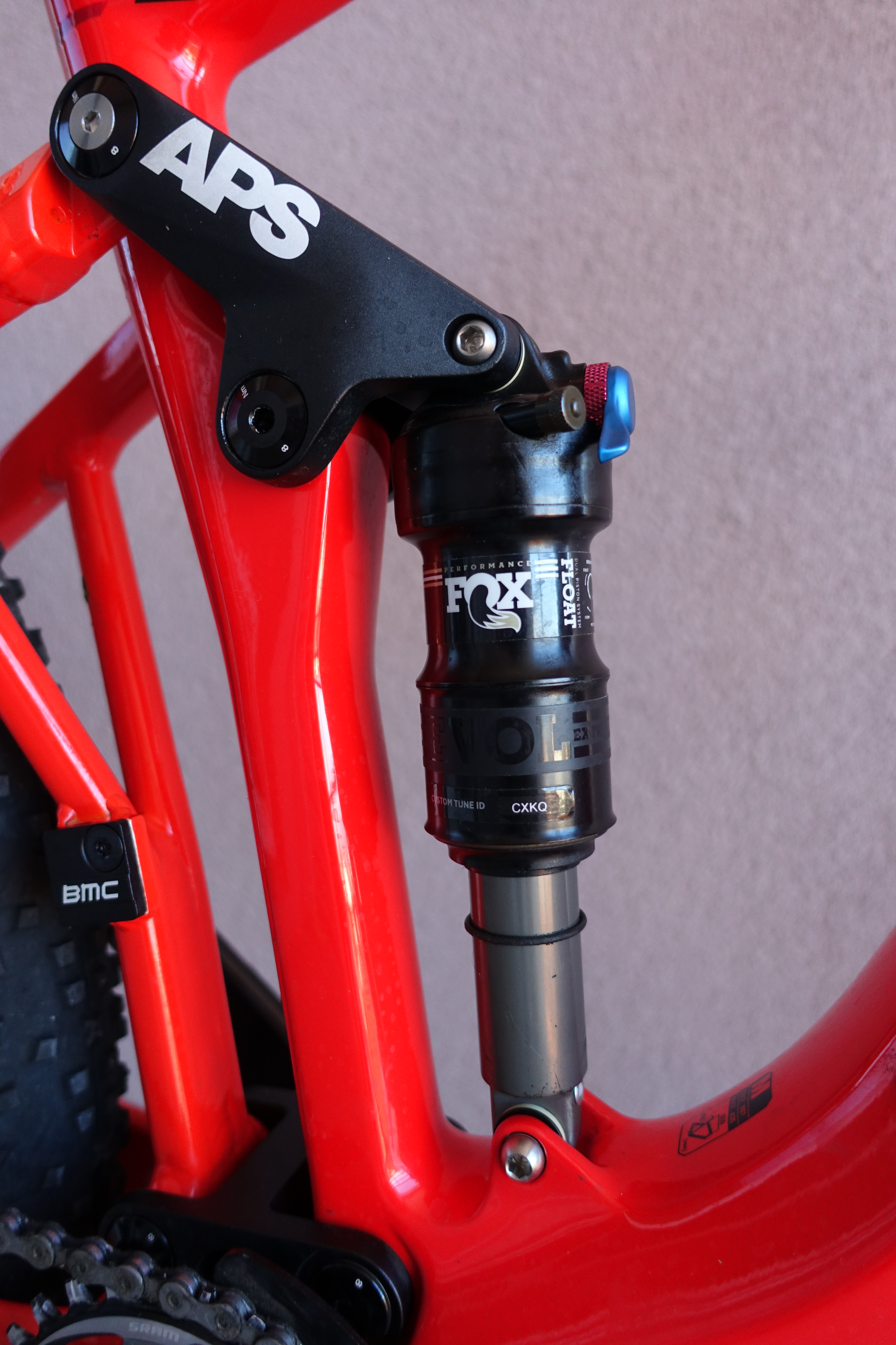 Rear shock on a BMC Speedfox (130mm)